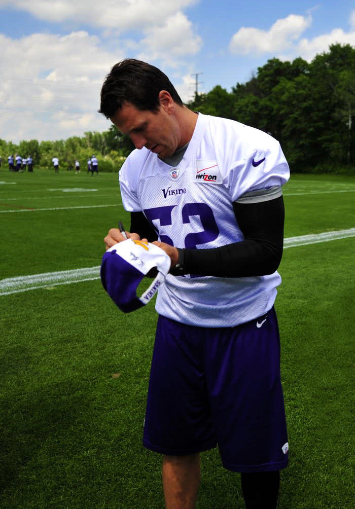 Minnesota Vikings LB Chad Greenway signs autograph during 2013 Veterans Day